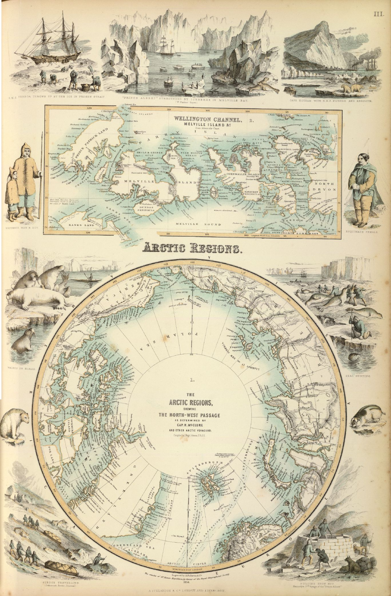 Map of Arctic Regions, published by A. Fullarton & Co., London and Edinburgh